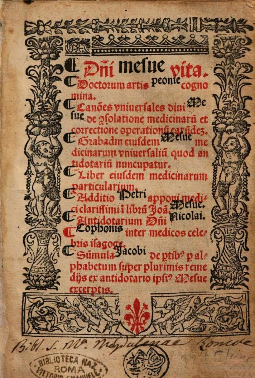 Mesue works 1523 title page